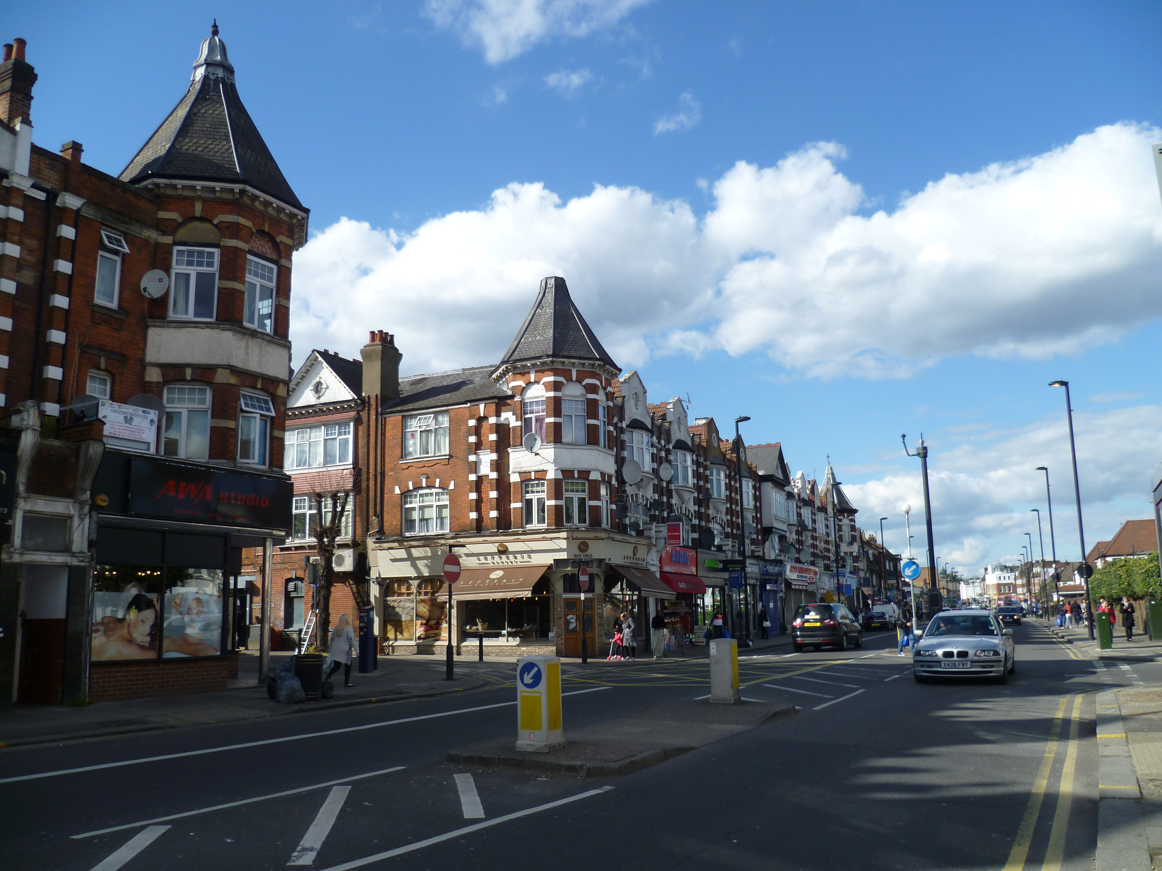 London